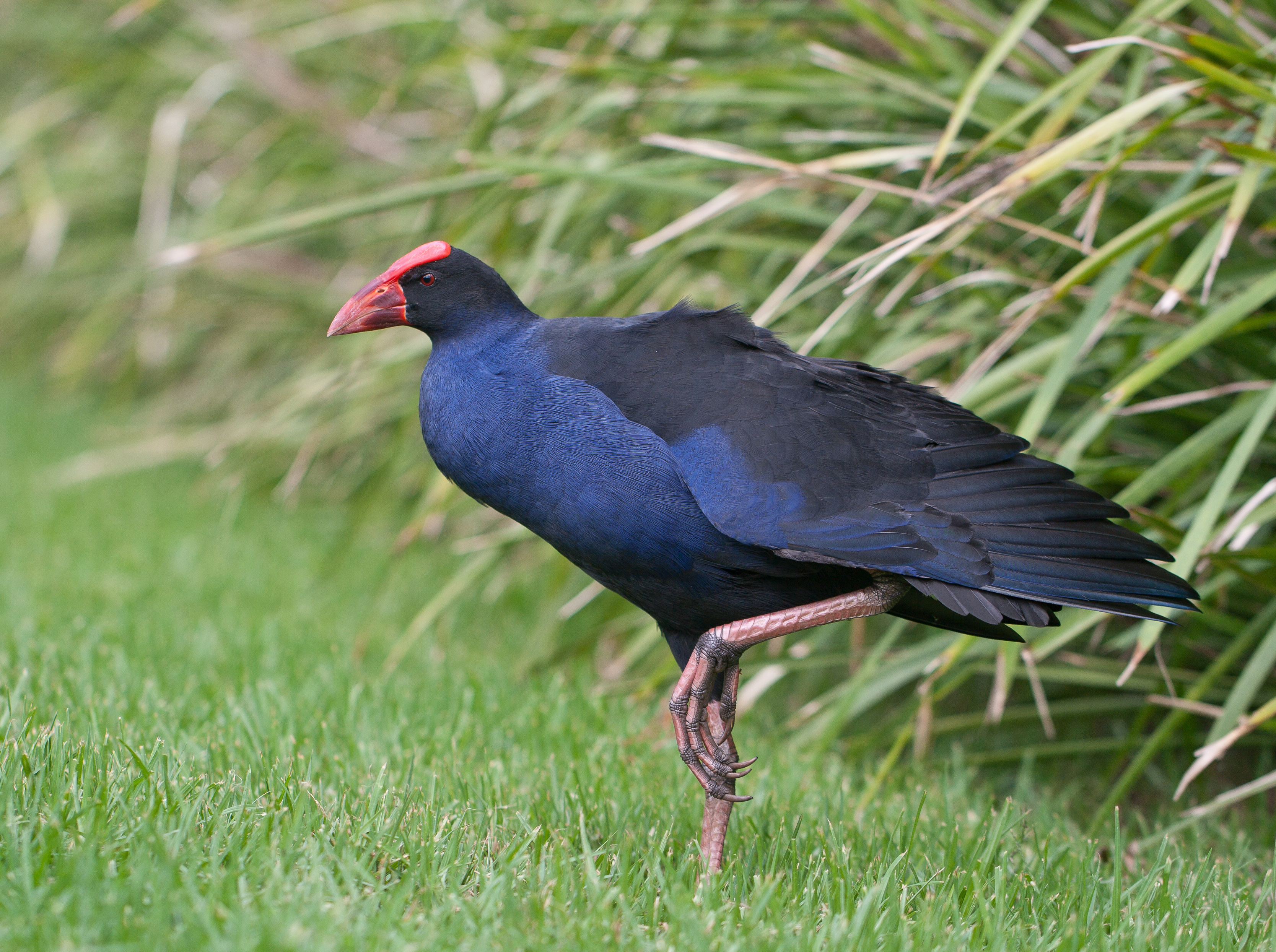 A Purple Swamphen (Porphyrio porphyrio melanotus) in Wollongong botanic gardens.